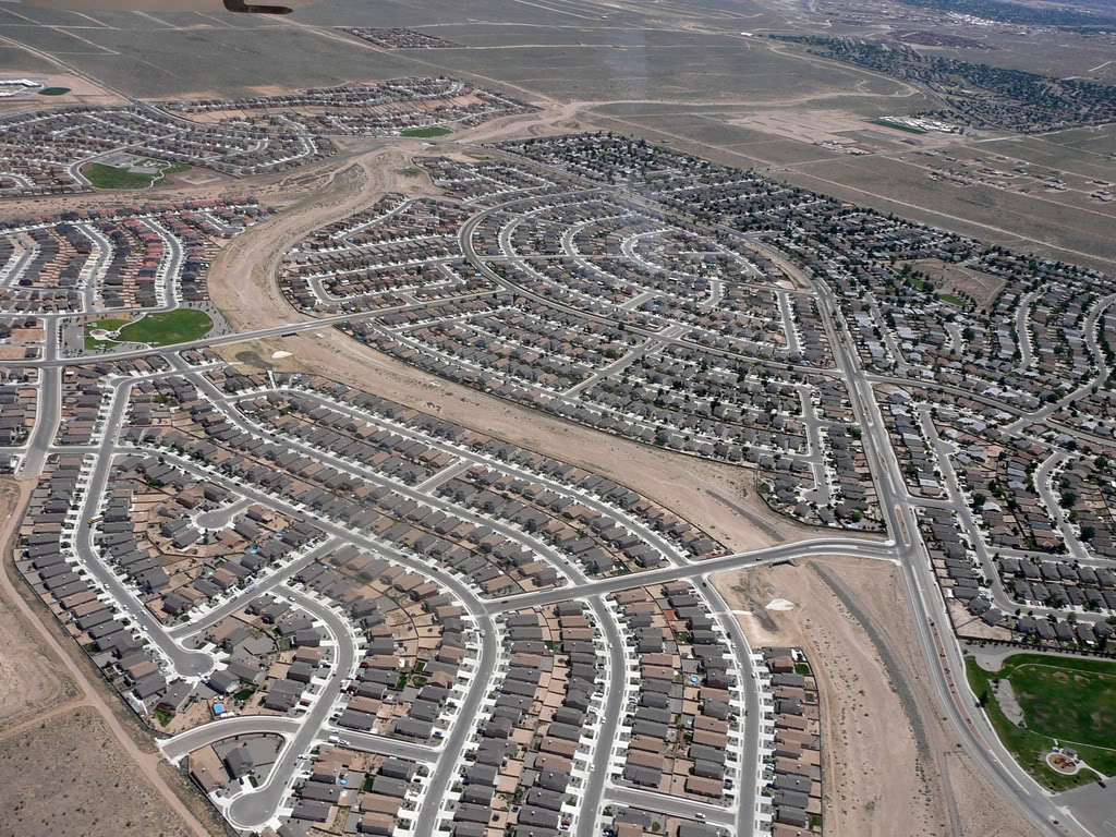 This is MY photograph I captured while on a balloon ride over Rio Rancho, New Mexico in 2009. I have an email verification this photo belongs to me, Bradly Salazar.